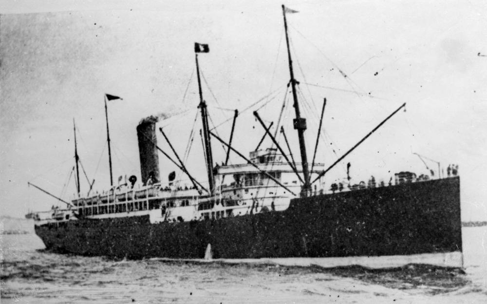 Pericles (Ship) Built in 1908 weighing 10,925 tonnes, she was lost near Cape Leeuwin, Western Australia, 31 March 1910. (Description supplied with photograph) White Star Line’s S.S. Pericles. When launched on December 21, 1907, this four-masted 6,000 IHP twin-screw steamer had room for 100 first class passengers, 400 third class and 150 crew. After completing sea trials in June 1908, the following month SS Pericles set off for Sydney on its maiden voyage. By all accounts it was the most opulent luxury liner servicing Australia in 1908.